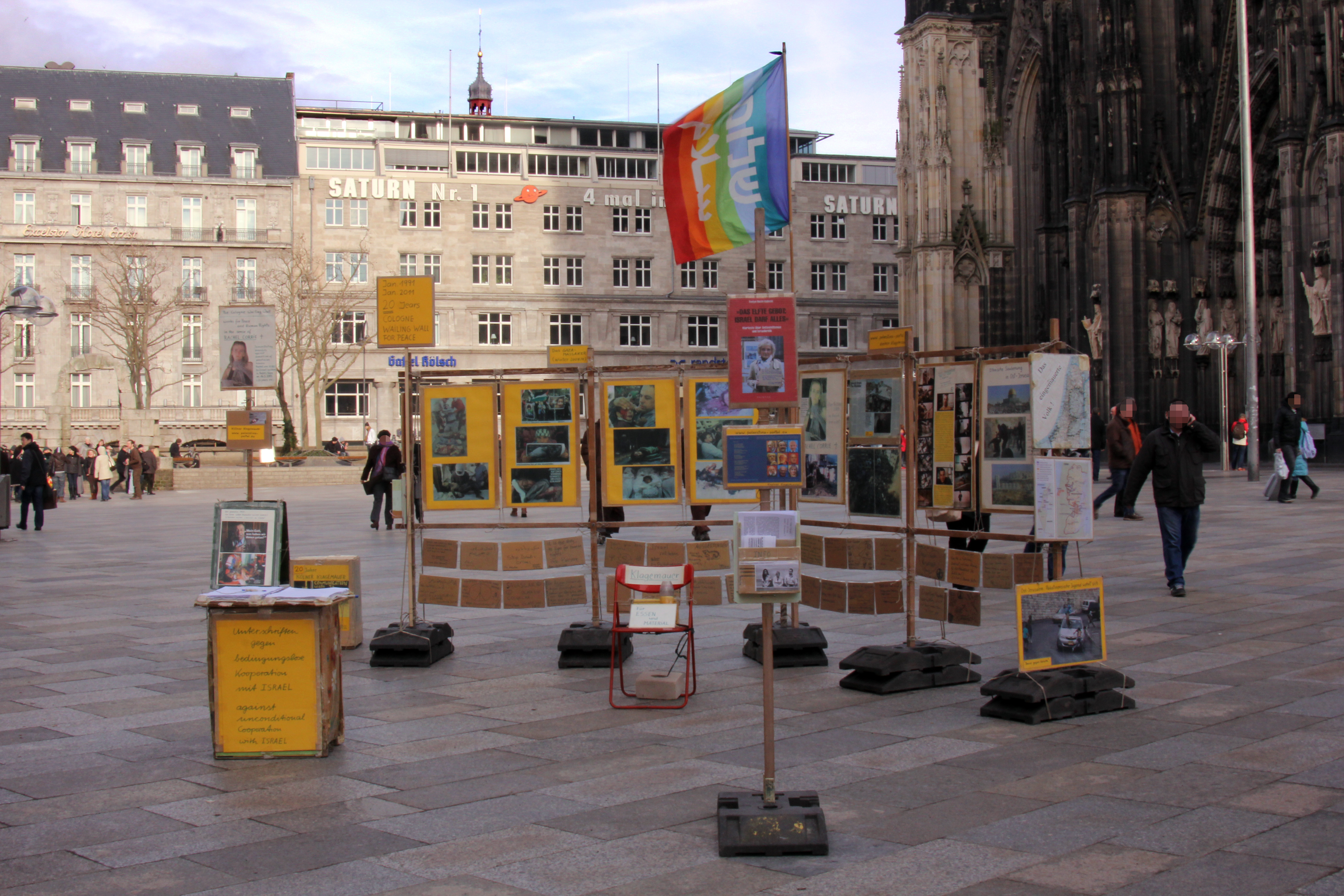 "Cologne Wailing Wall for Peace", 2011